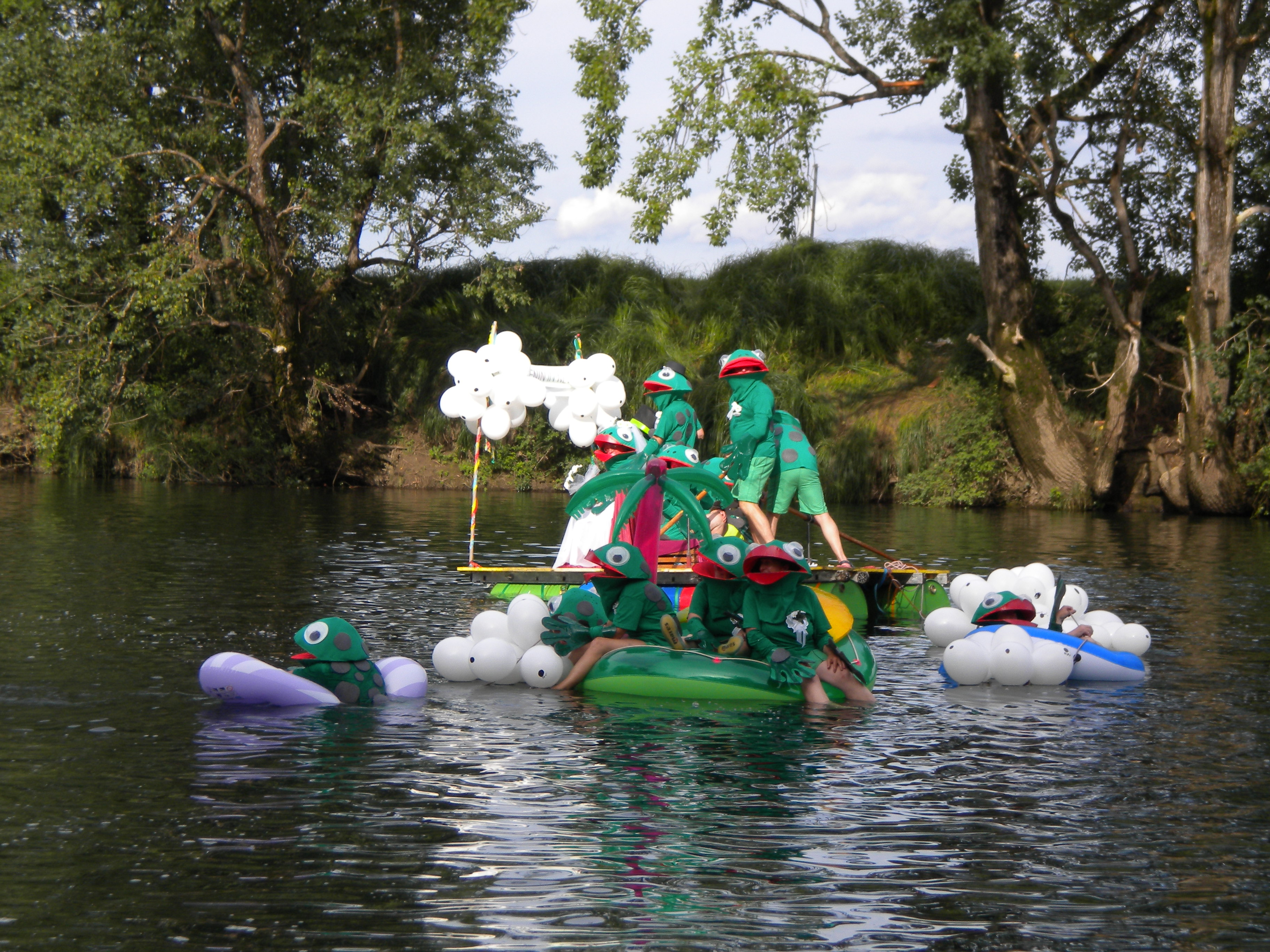 Summer carneval on the river Kolpa in Podzemelj (Bela krajina region)